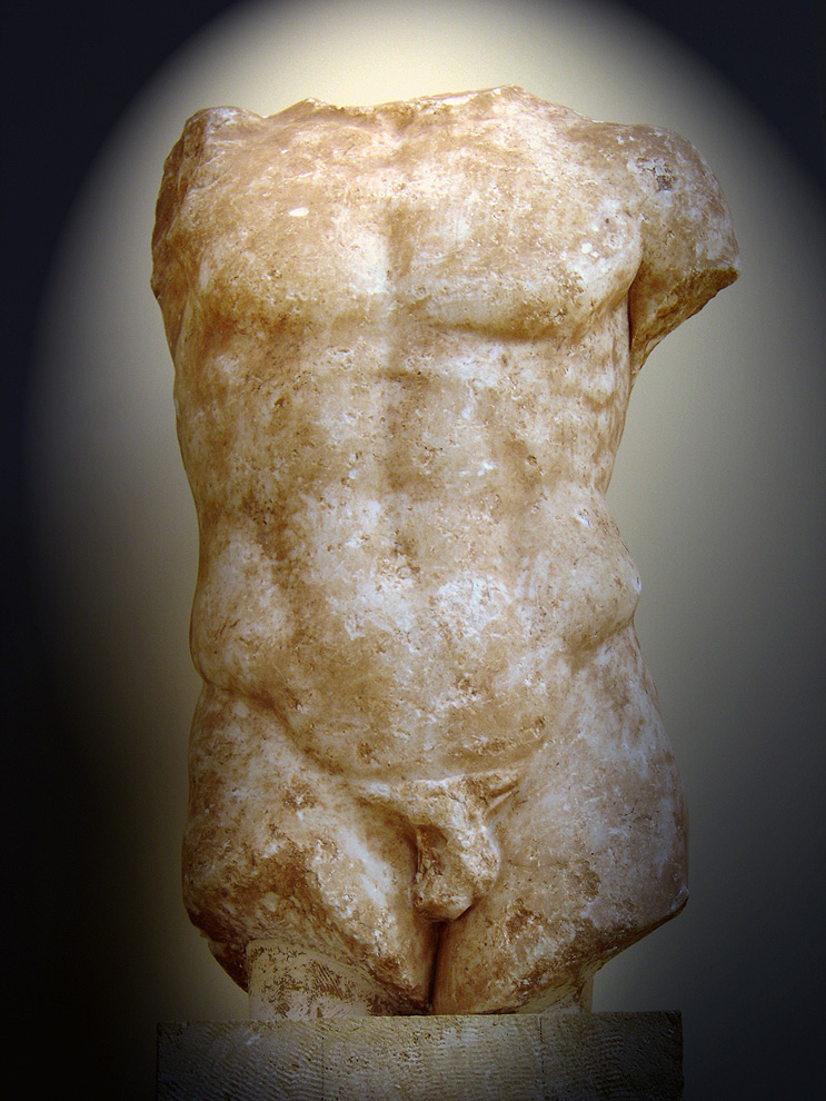 Torso. Archaeological Museum of Delphi, Greece. Probably of the wrestler Telemachos of Pharsalos.